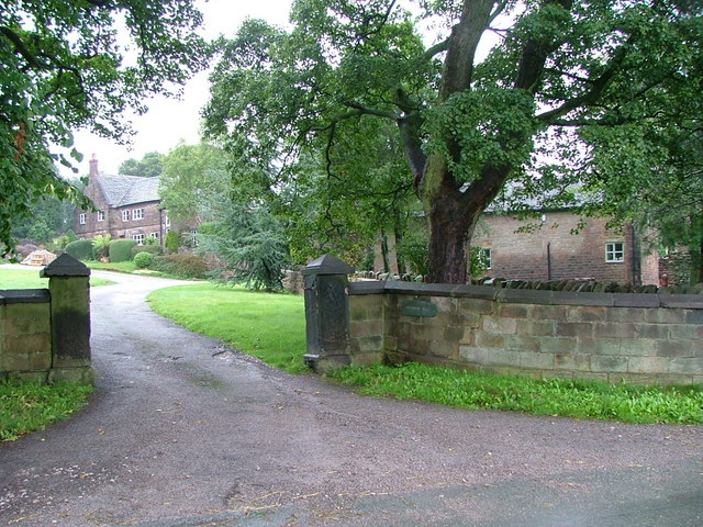 Overton Hall. A barn here (possibly the one on the right) is currently (August 2006) for sale at £565,000. It's enough to make the cows pig-sick.